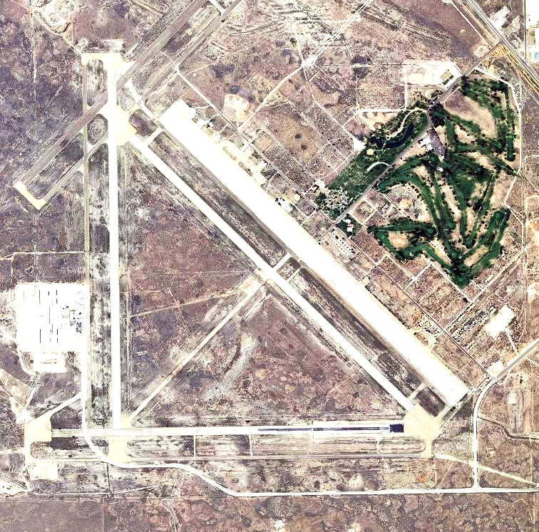 USGS digital orthophoto of Hobbs Industrial Airpark in New Mexico